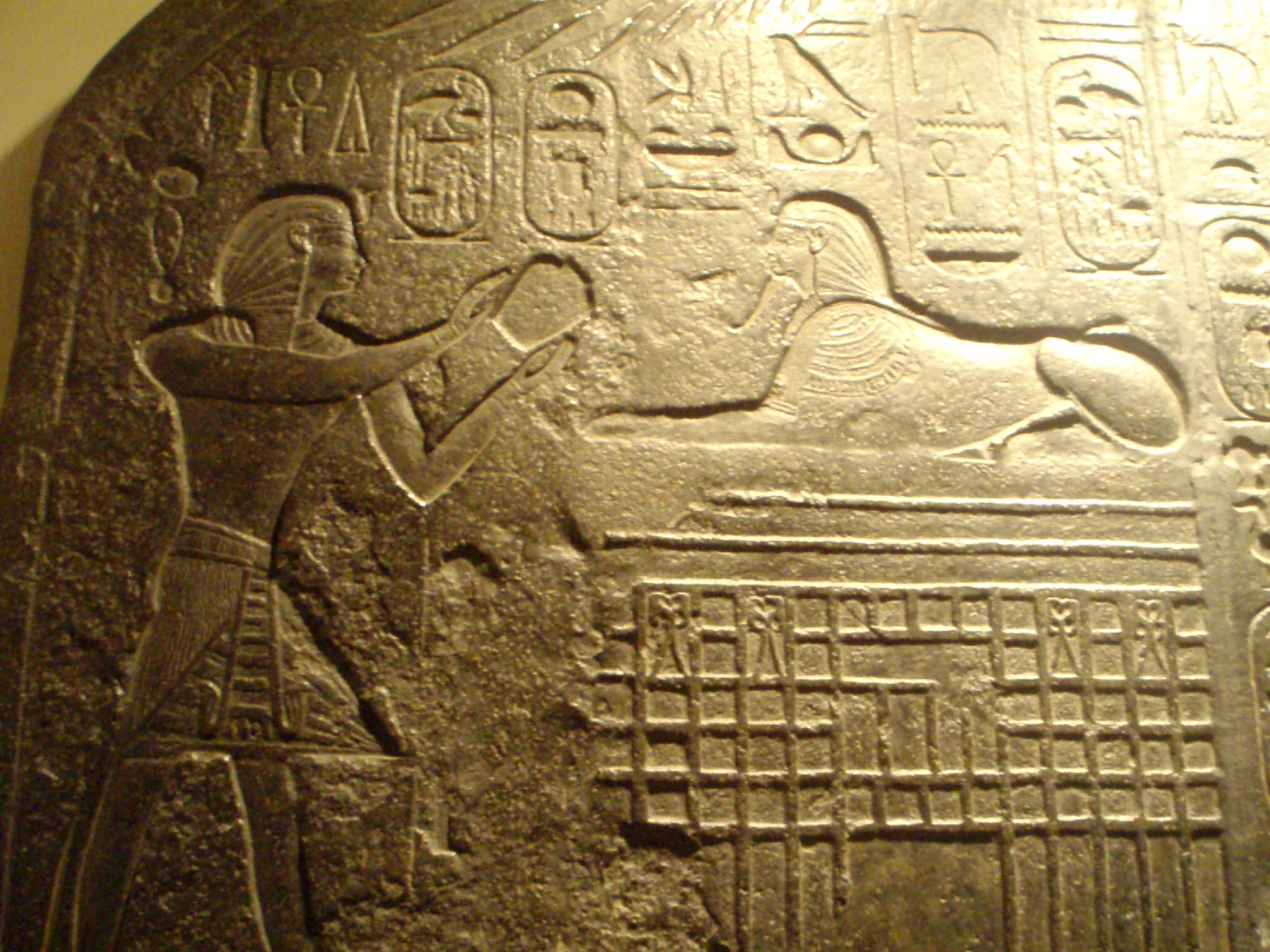 Reproduction of the Dream Stele of Thutmose IV - Close-up of detail depicting pharaoh making offering to Sphinx. RC 1834 (Original 1500 - 1390 BC, made of granite, located on the Giza Plateau).